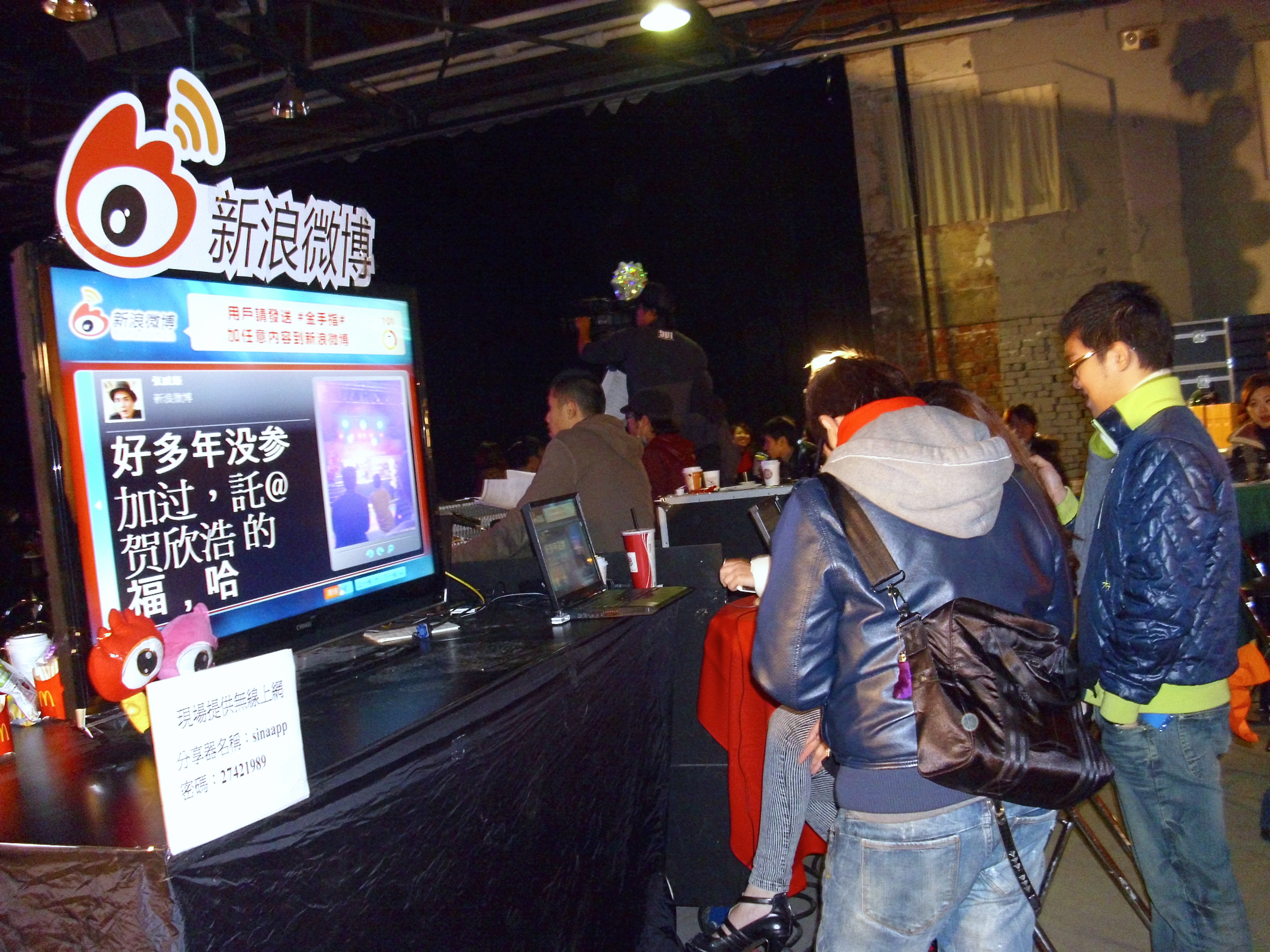 2010 Click Awards: Sina MicroBlog Live Webcast Service.